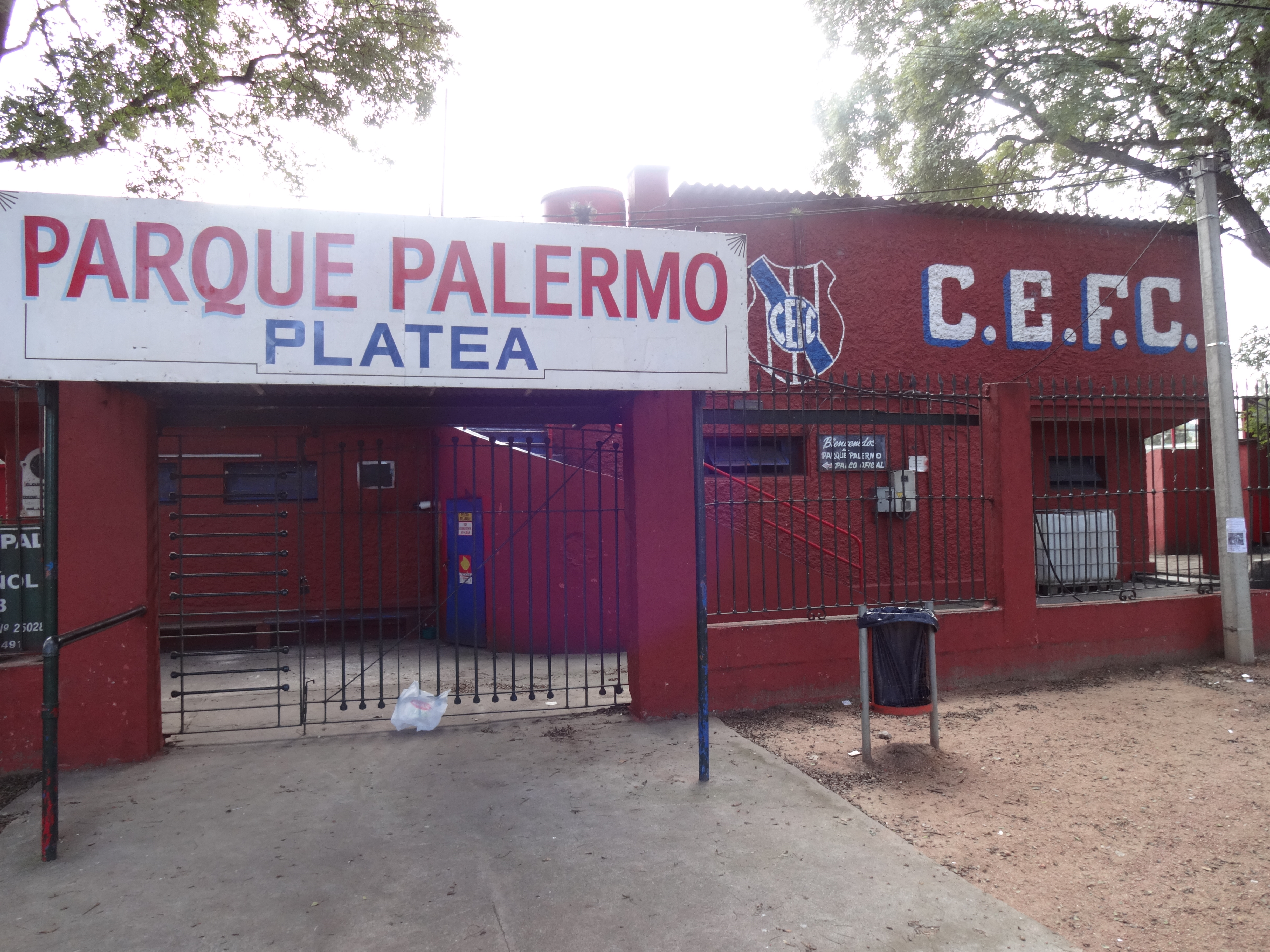 The Parque Palermo Stadium in Montevideo. Facade.